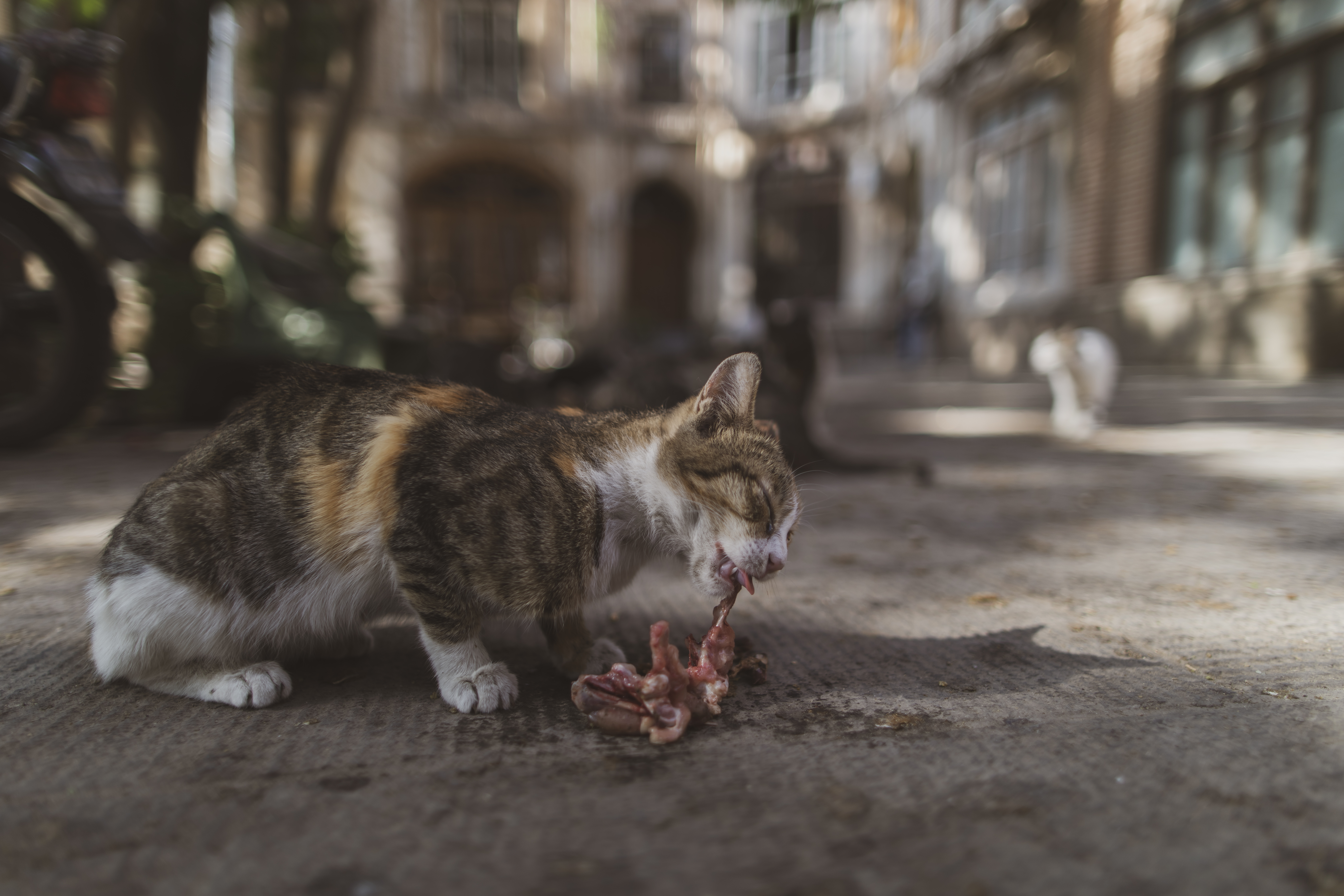 The wildlife of Iran include the fauna and flora of Iran.